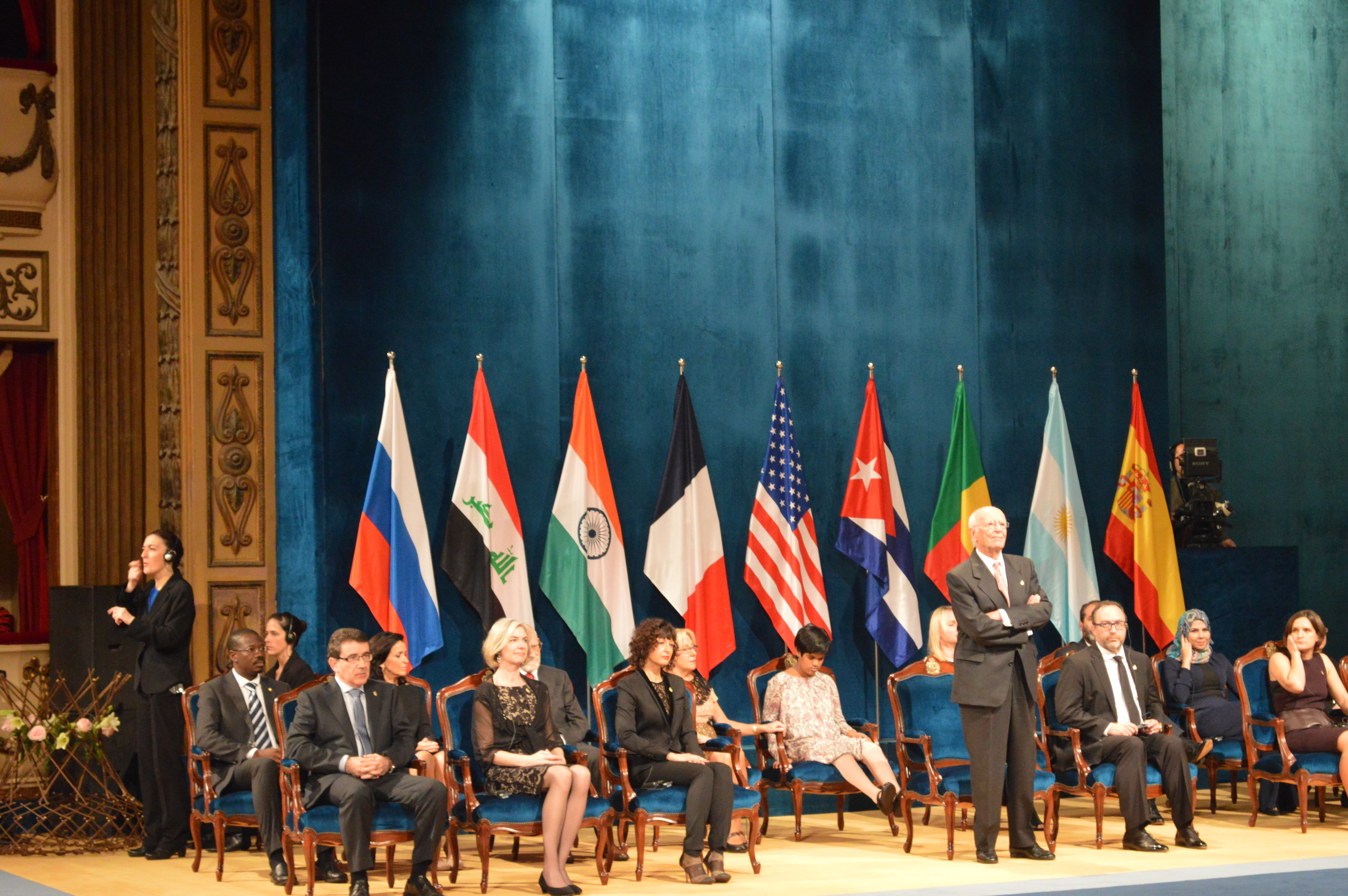 Princess of Asturias Awards ceremony 2015-10-23